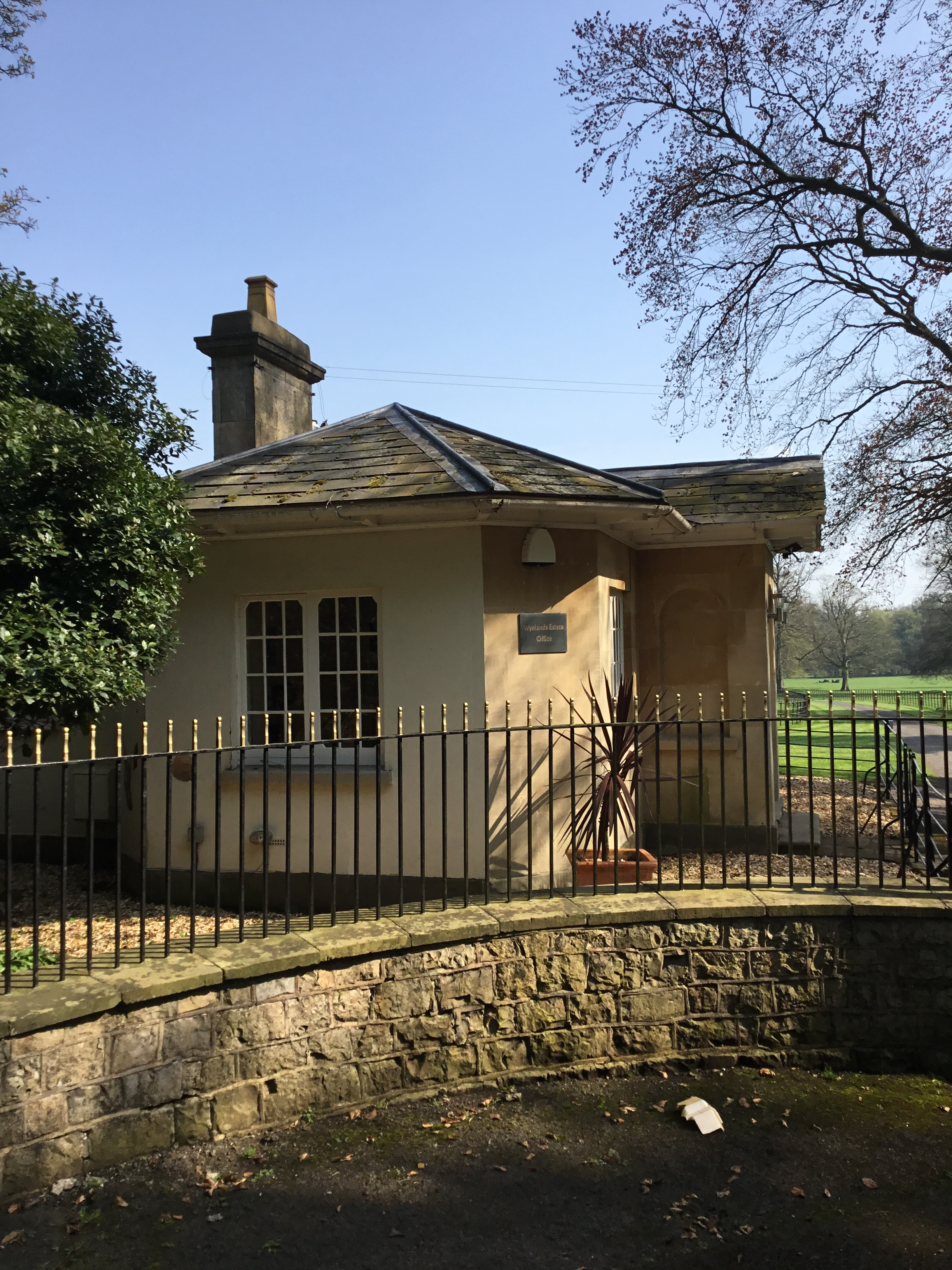 Wyelands Estate Office, Chepstow